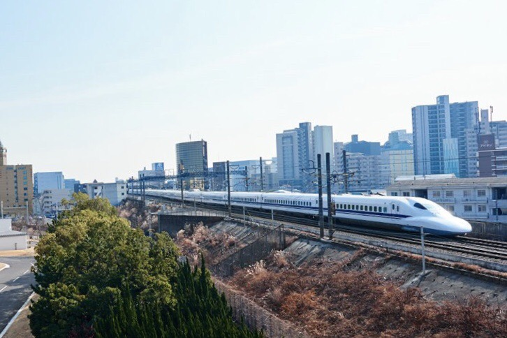 Mikawaanjo Skyline01